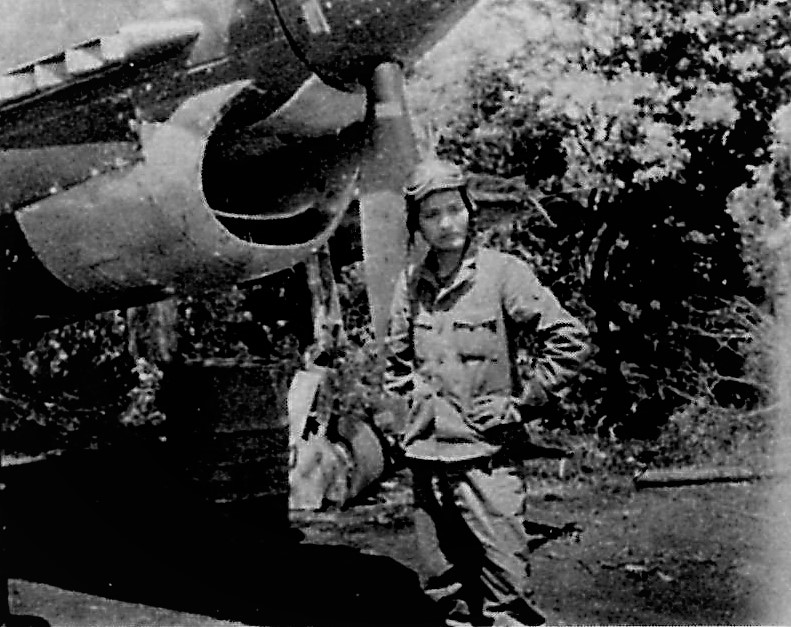 Judy at Iwakawa airfeild